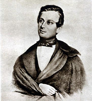 Czech playwright Josef Kajetán Tyl